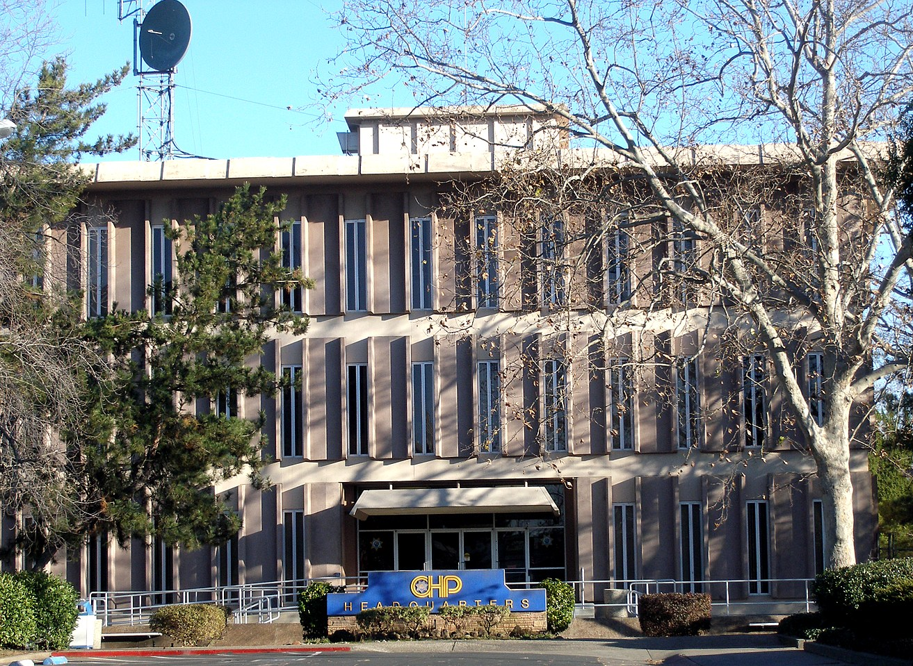 The headquarters of the California Highway Patrol in Sacramento. This building is across a parking lot from the headquarters of the California Department of Motor Vehicles. Photographed by user Coolcaesar on January 14, 2007.